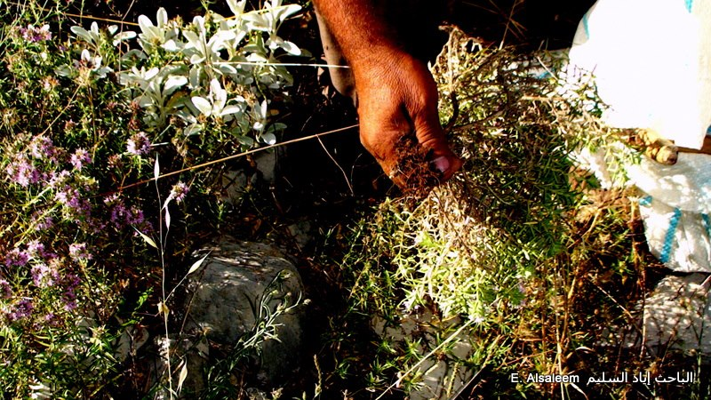 نباتات برّية سورية تؤكل